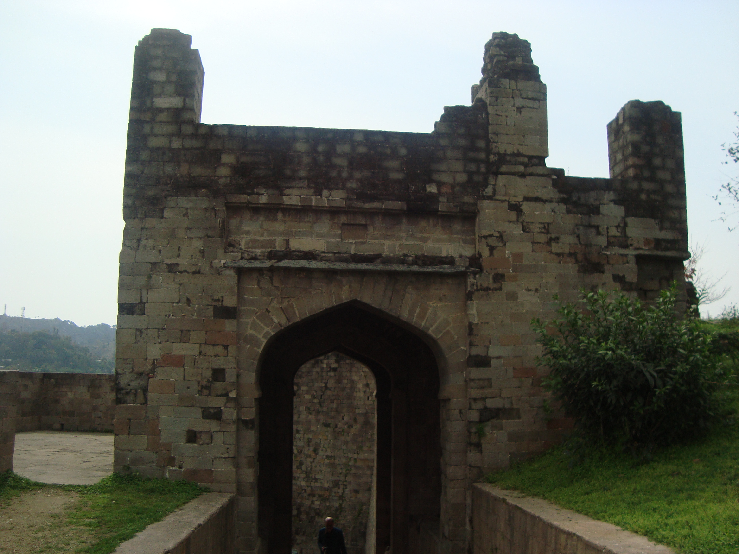 Jahangiri Gate, Kangra Fort - from North side